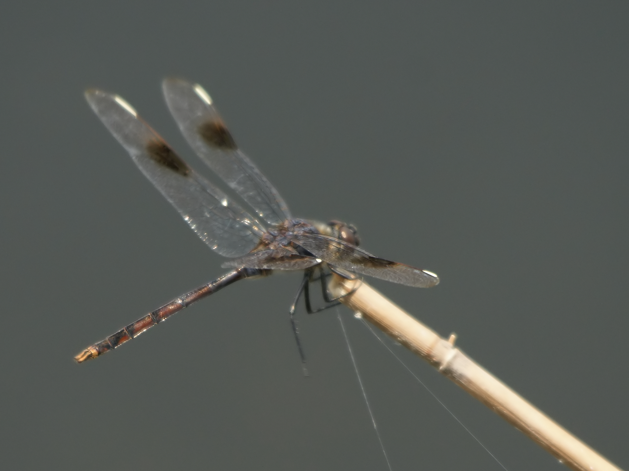 Four-spotted Pennant at Tamiami Trail, north of the Everglades National Park in Miami-Dade County, Florida, U.S.A.